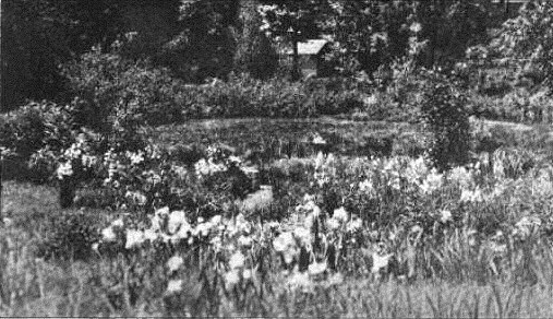 View towards the pond at Wellesley Gardens, home of the iris breeder Grace Sturtevant in Massachusetts, 1920.